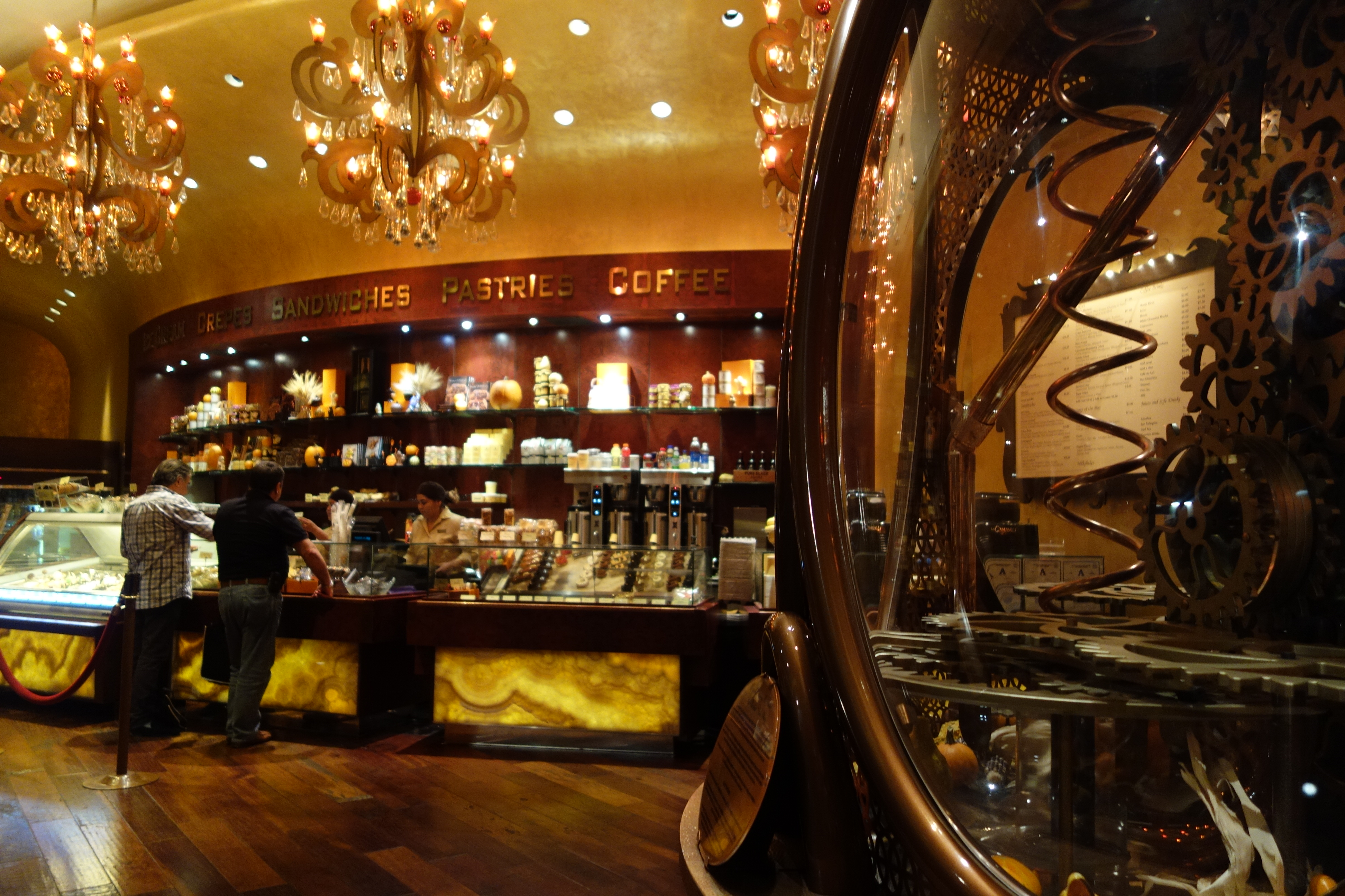 Payard Patisserie & Bistro at Caesars Palace Licensing